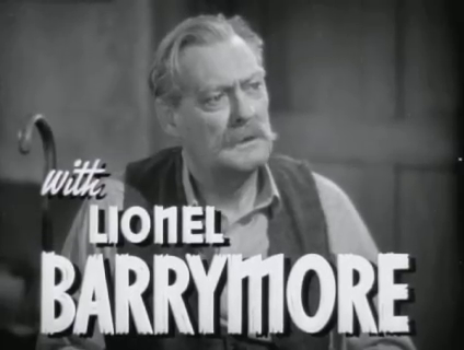 Lionel Barrymore from the trailer for The Bad Man (1941), directed by Richard Thorpe.